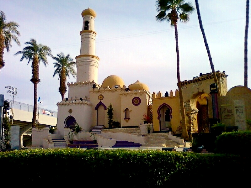 Magic Carpet Stage at the 2012 Riverside County Fair and National Date Festival. View looking south-southeast.This photograph was taken with a Samsung Reclaim SPH-m560 mobile phone camera and edited (saturation, brightness, contrast, color balance, sharpness) using ArcSoft PhotoStudio 5.5